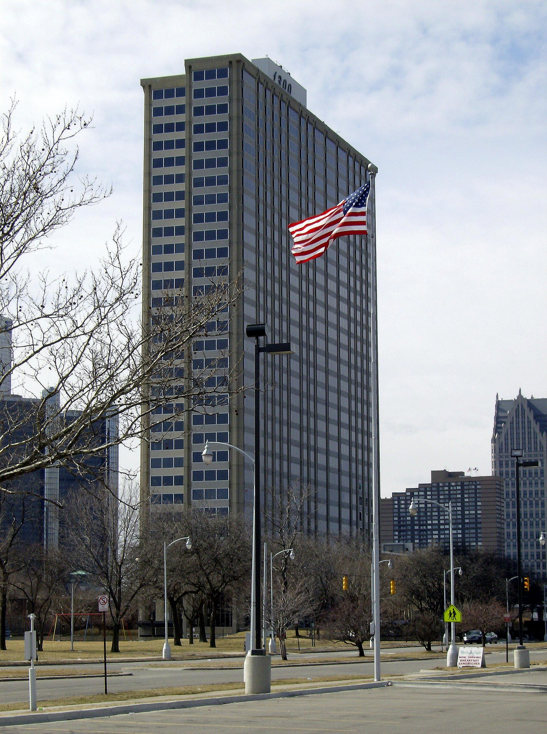 The Modernist 1300 Lafayette East Cooperative — in Lafayette Park, Detroit, Michigan. The "Mies van der Rohe Residential District, Lafayette Park" is on the National Register of Historic Places in Detroit.